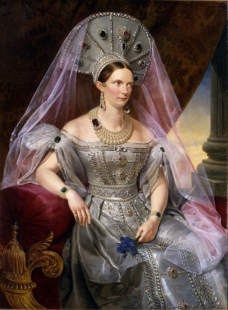 царица Александра Фёдоровна, Портрет работы Франц Крюгер, 1836